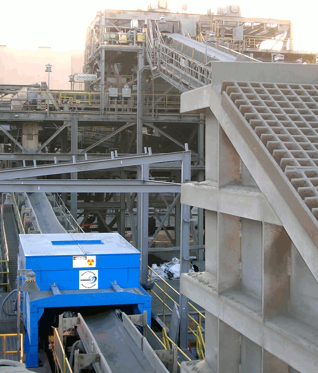 CNA Cement